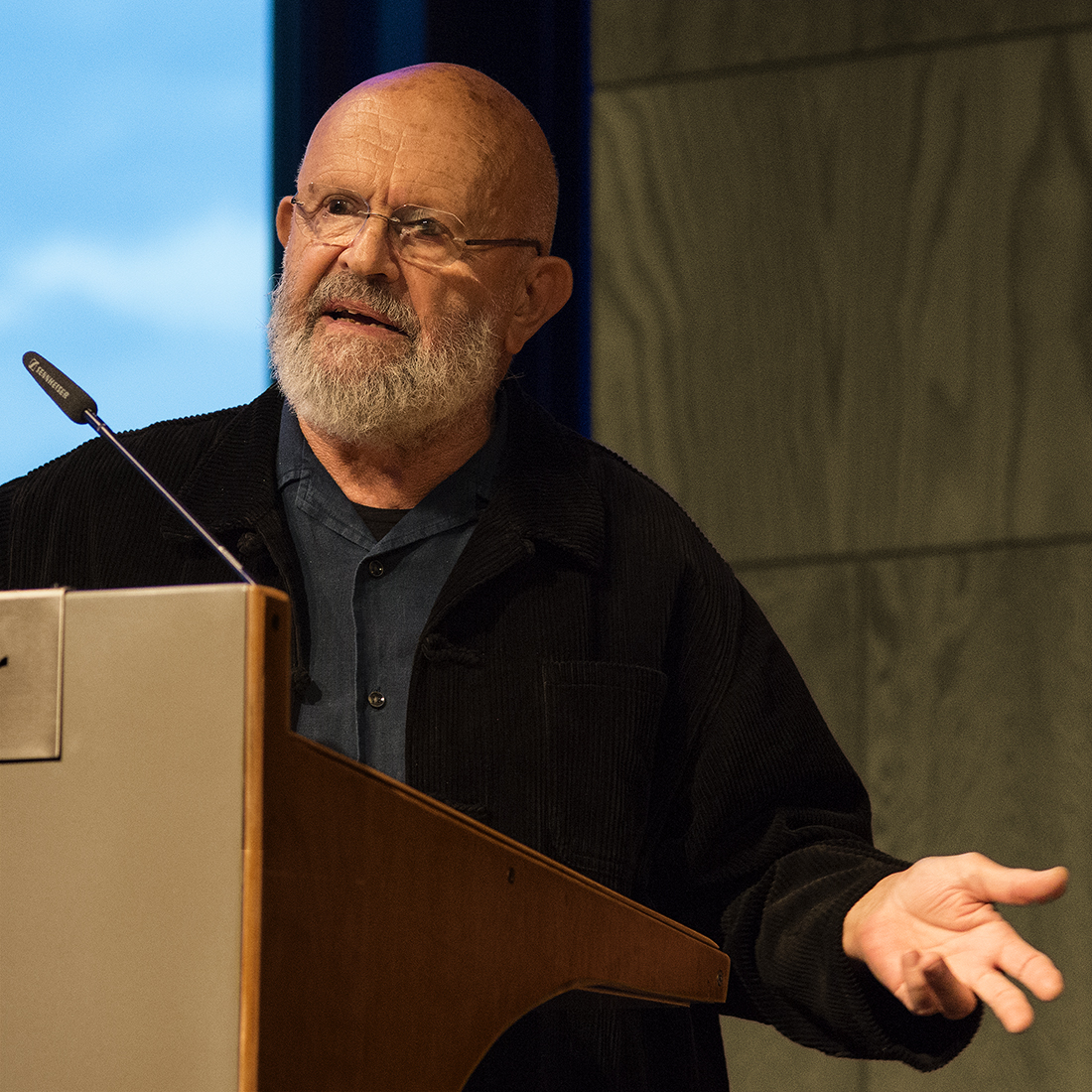 Jim Dine at SK-Stiftung Kultur, Cologne, 2014